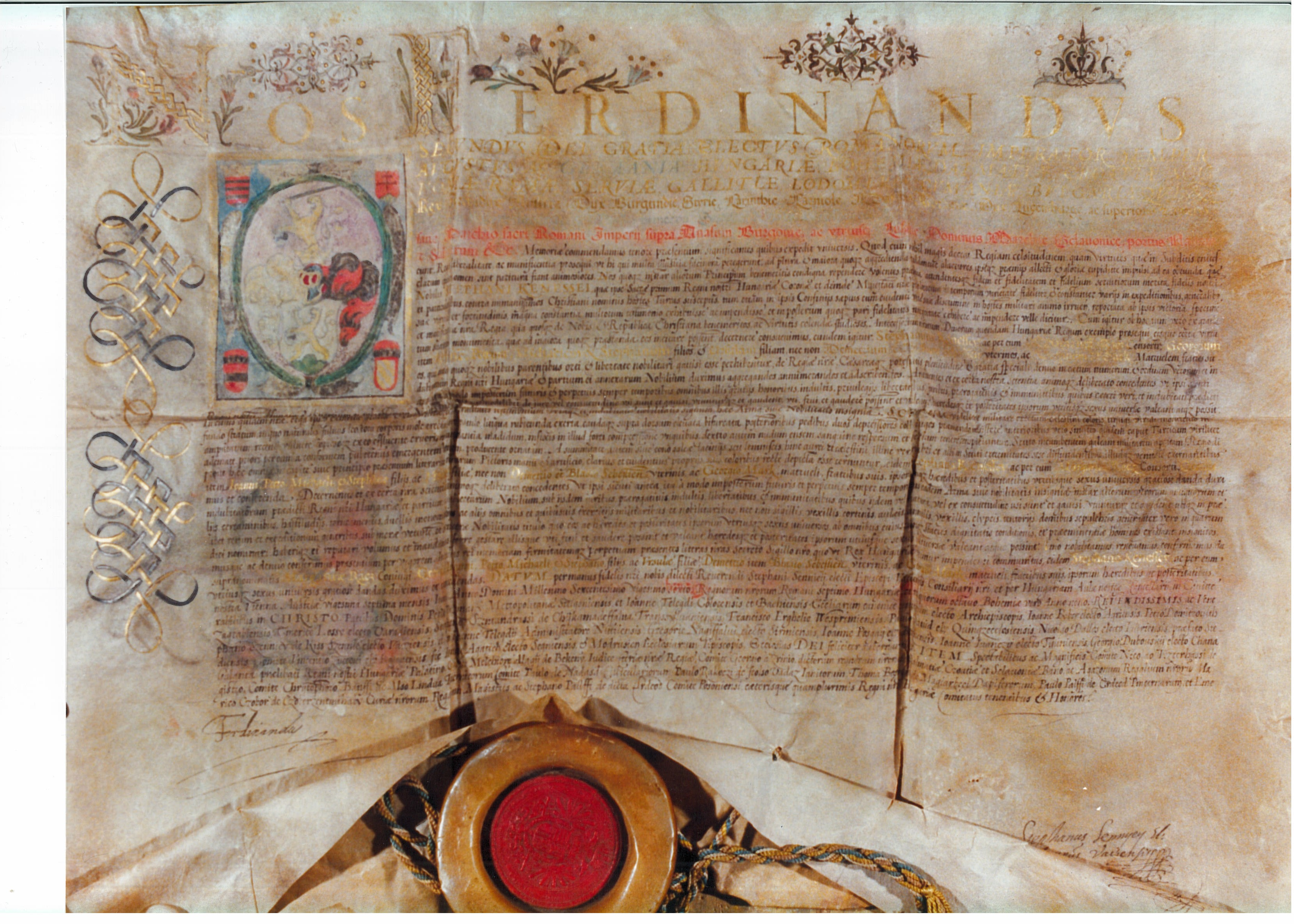 Letter of 1626 by King Ferdinand II of Hungary confirming the nobility of István (Latin: Stephanus) Kenessey (Latin: de Kenese/ de Kenesse), his wife and their six family members.